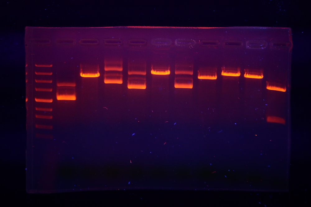 DNA fragments in agarose gel stained with ethidium bromide. DNA and ethidum bromide form a complex that emits orange light if placed under UV.